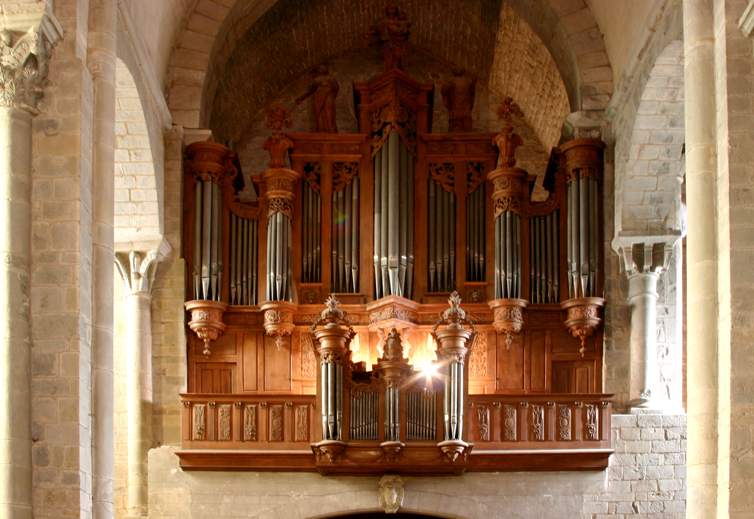 Interior of Basilique Saint-Nazaire de Carcassonne